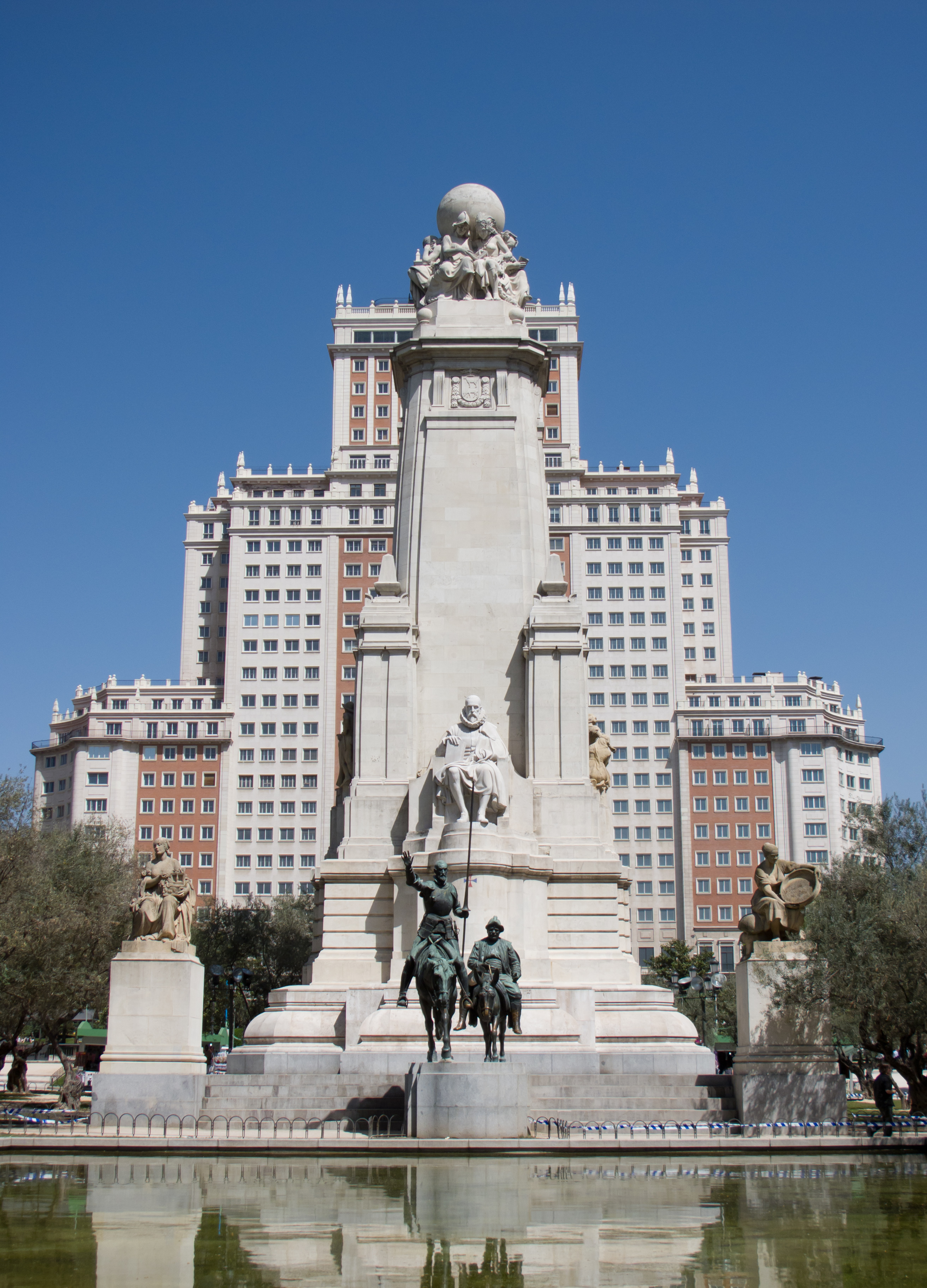 Monument to Miguel de Cervantes and España Building, Madrid.